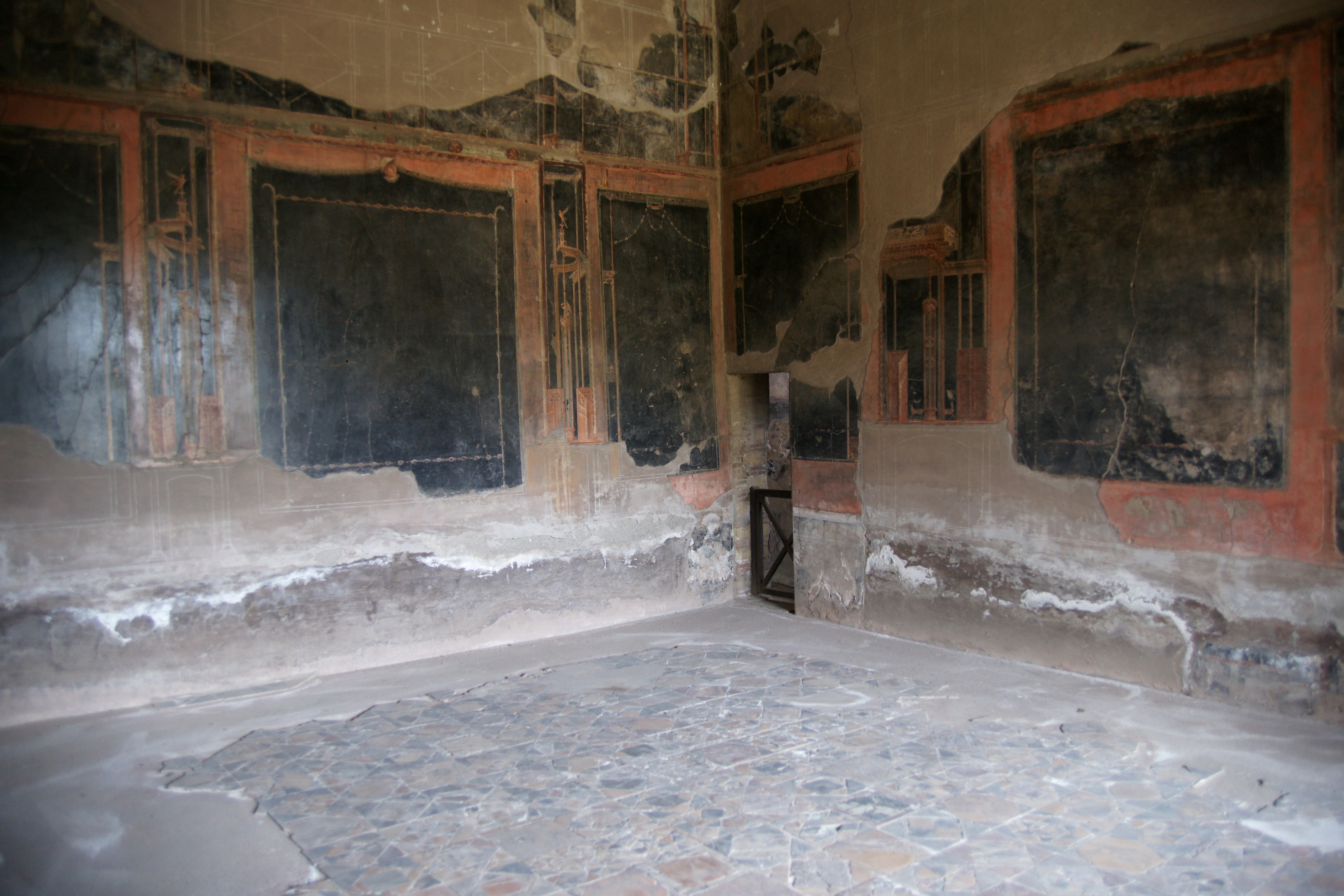 Herculaneum: Casa dei Cervi